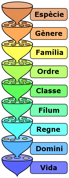 Catalan translation of [1]